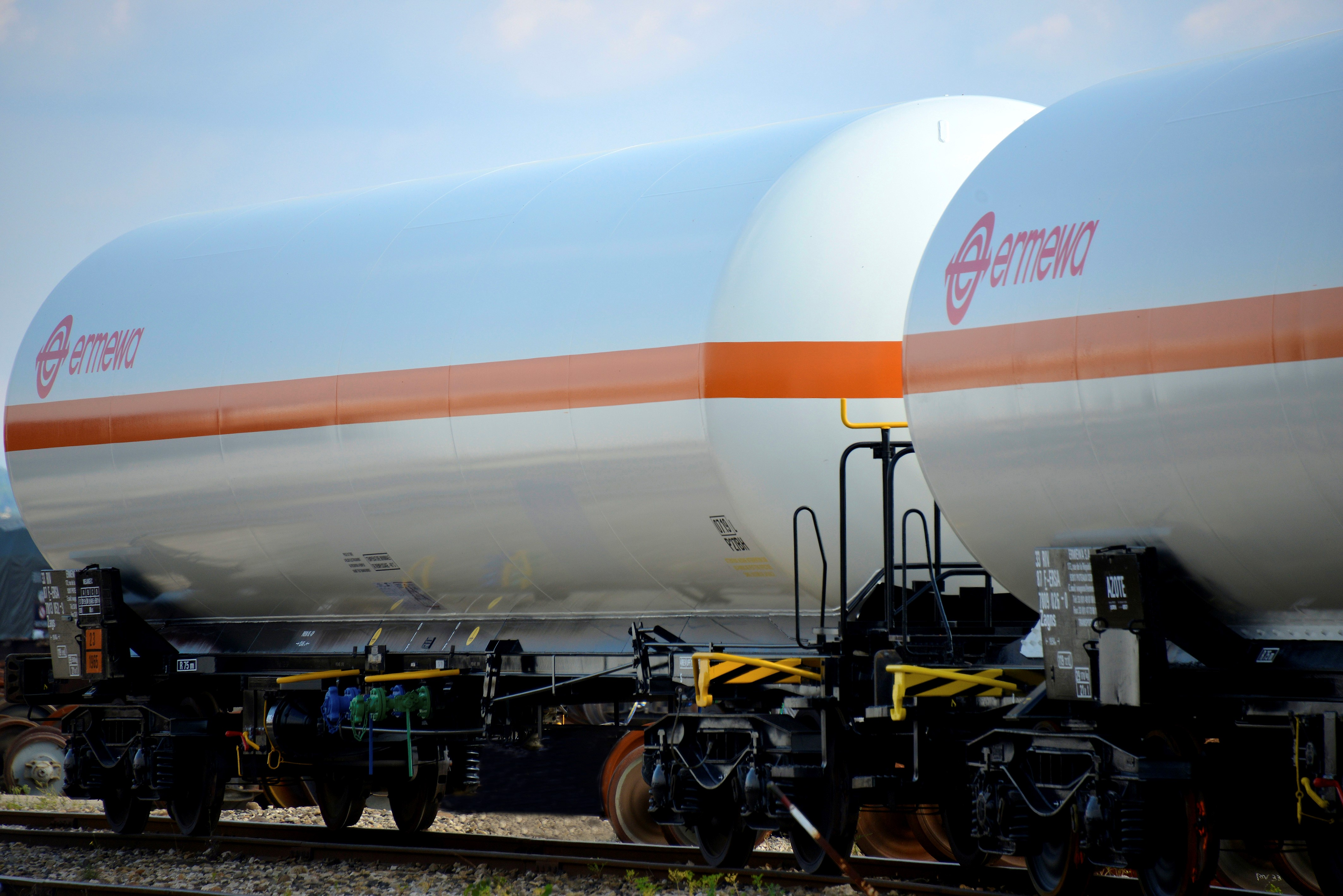 Ermewa gas railcars